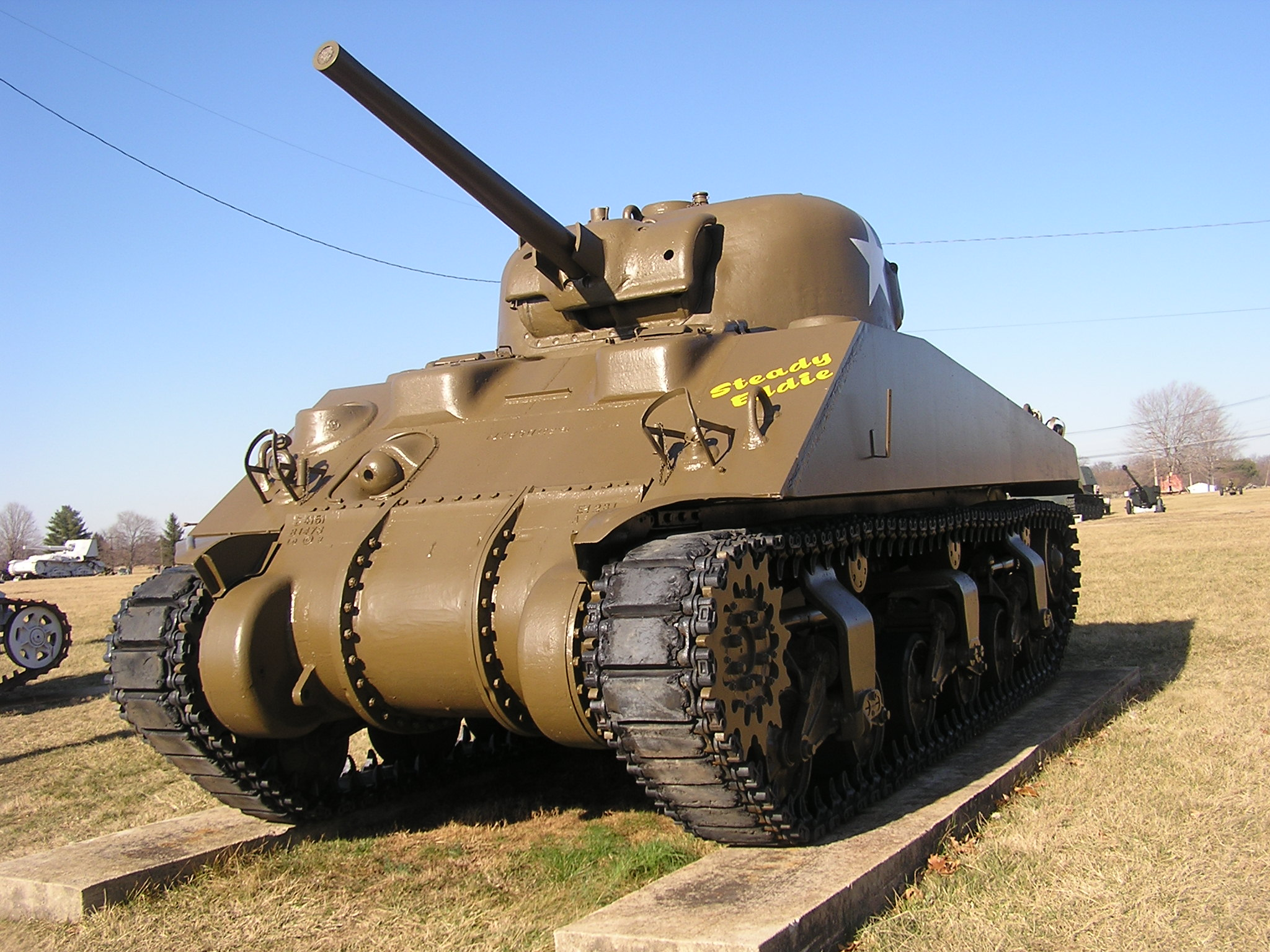 Taken at Aberdeen Proving Ground